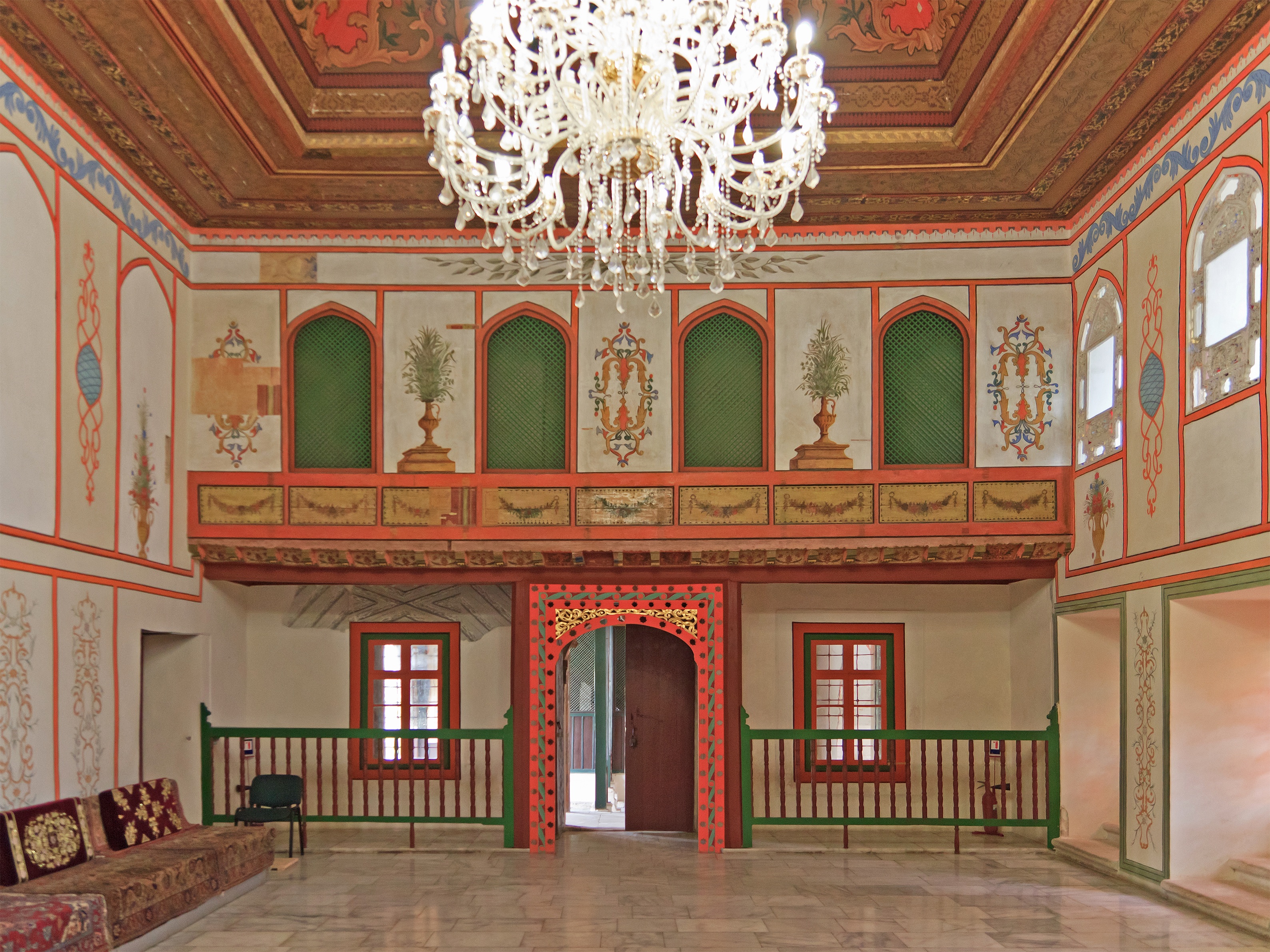 The Divan Hall inside the Khan's Palace (Hansaray) in Bakhchisaray, Crimean Peninsula.